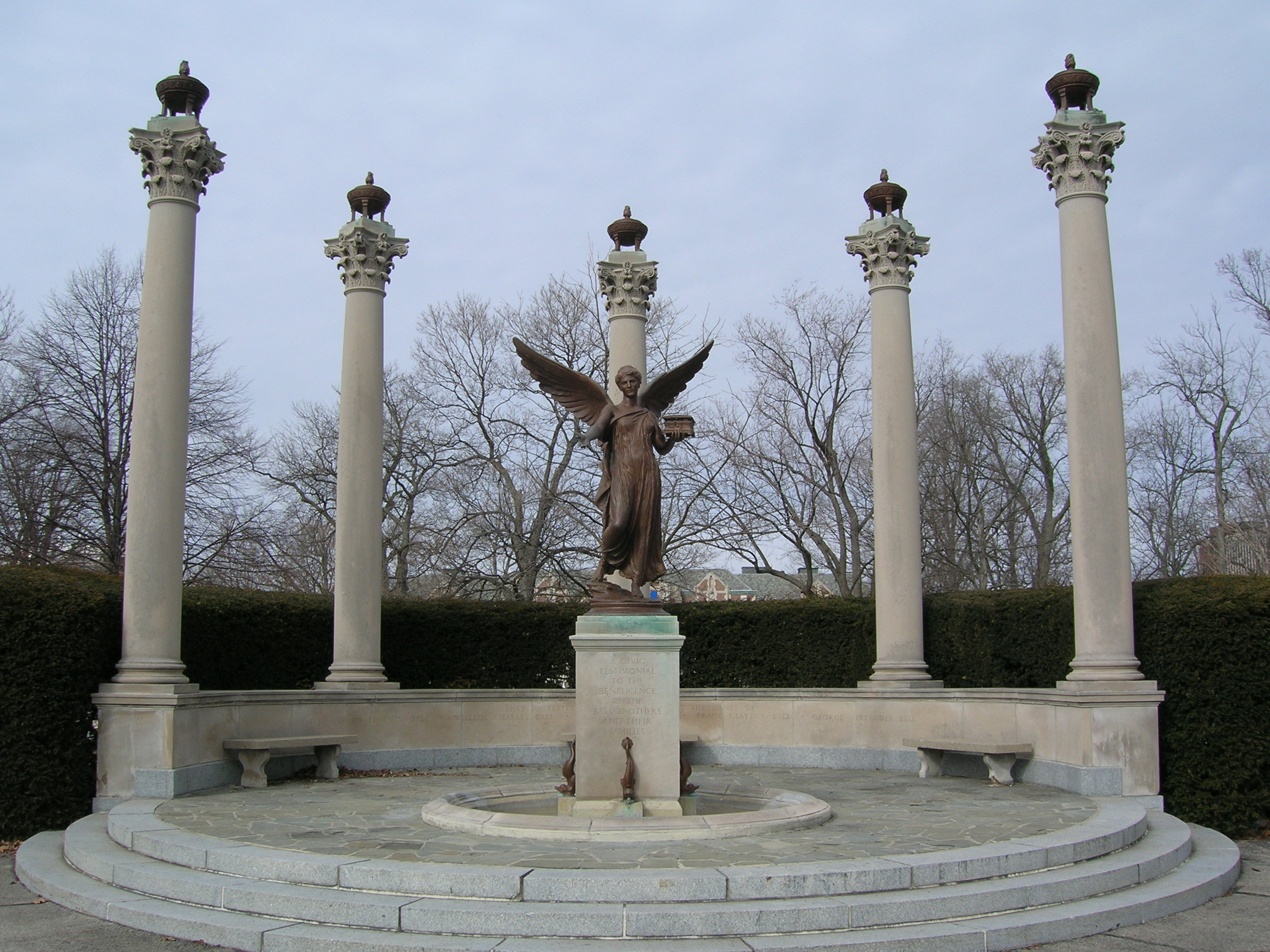 Beneficence (1937), by Daniel Chester French. Ball State University, Muncie, Indiana Taken by me Feb 19, 2006